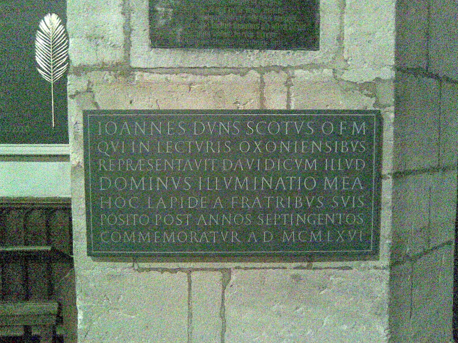 Plaque commemorating Duns Scotus in the University Church, Oxford. The plaque reads: IOANNES DUNS SCOTUS. O.F.M.~QUI IN LECTURIS OXONIENSIBUS~REPRESENTAVIT DAVIDICUM ILLUD~DOMINUS ILLUMINATIO MEA~HOC LAPIDE A FRATRIBUS SUIS~POSITO POST ANNOS SEPTINGENTOS~COMMEMORATUR A.D.MCMLXVI. A barely adquate translation would be: IOANNES DUNS SCOTUS Ordinis Fratrum Minorum (Franciscan Order of Friars Minor) who in his Oxford lectures represented that famous line of David, "The Lord is my light" (Psalm 27), is commemorated by this stone placed by his brothers after seven hundred years AD 1966.